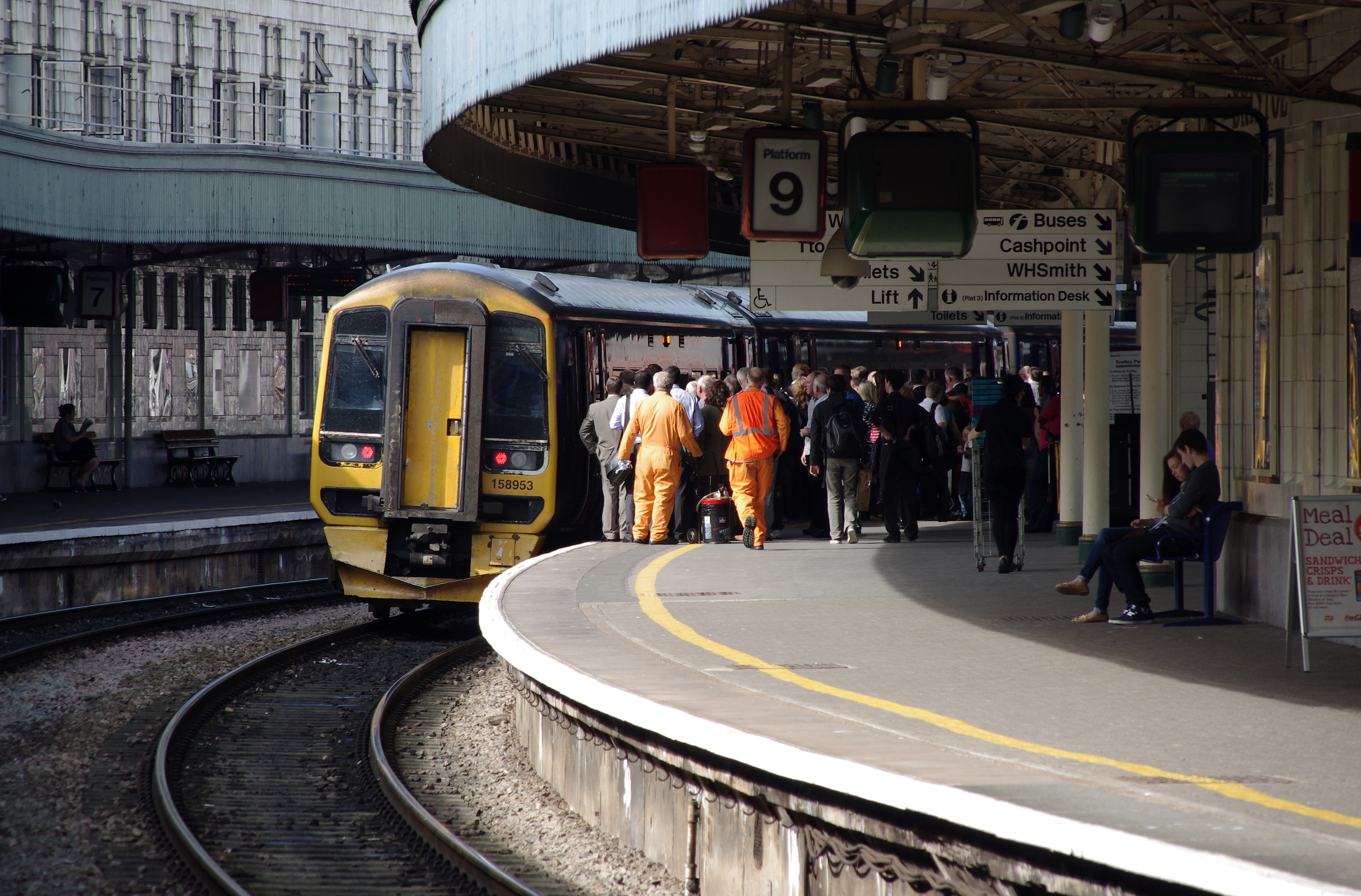 Passengers pile onto First Great Western class 158 "Express Sprinter" DMU 158953's Cardiff Central service at Bristol Temple Meads.